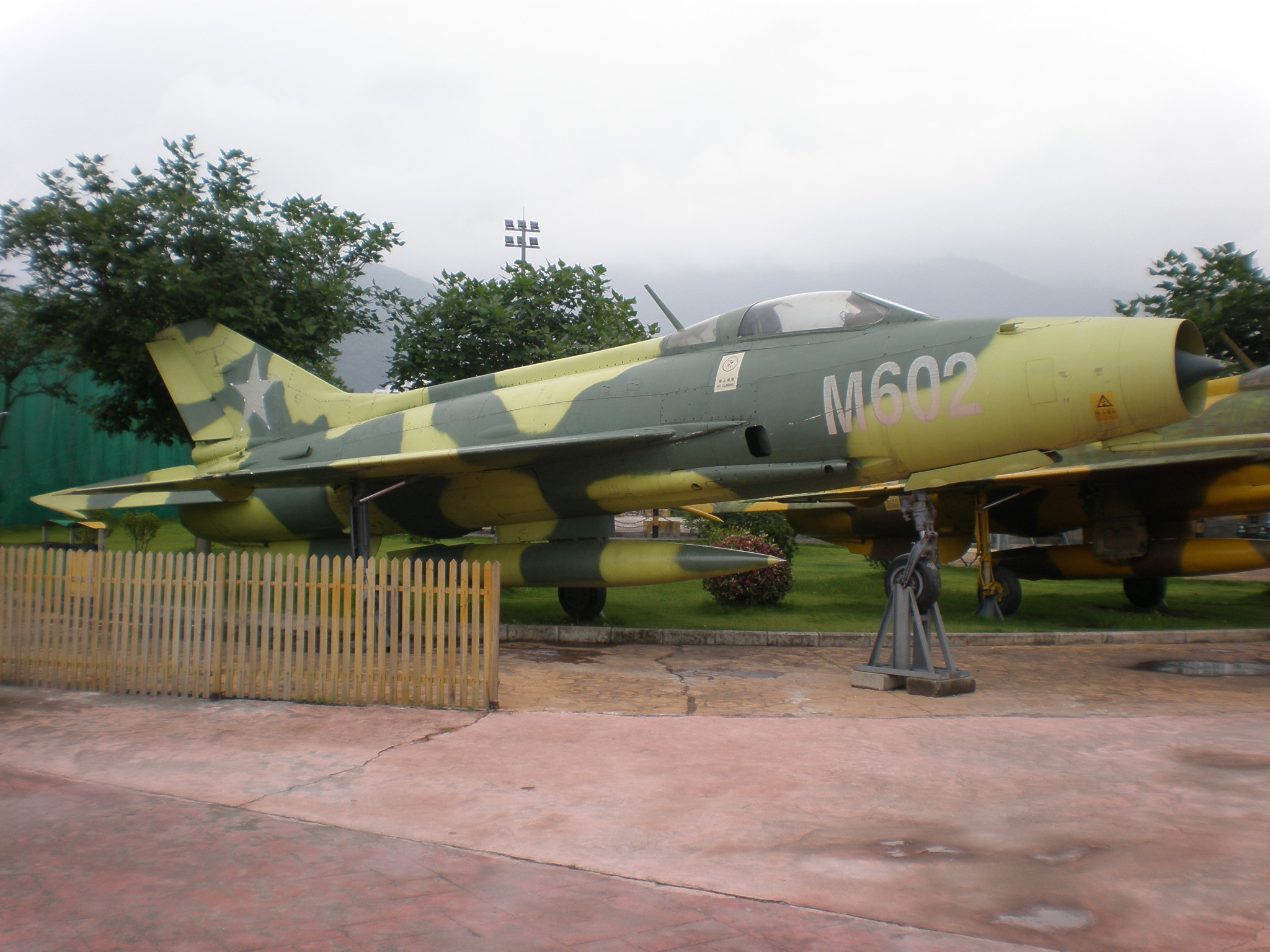 A Chengdu J-7 on display at the Minsk World theme park in Shenzhen, PRC.